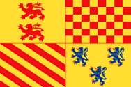 CorrèzeFlag This flag image could be re-created using vector graphics as an SVG file. This has several advantages; see Commons:Media for cleanup for more information. If an SVG form of this image is available, please upload it and afterwards replace this template with vector version available|new image name . It is recommended to name the SVG file "CorrèzeFlag.svg" - then the template Vector version available (or Vva) does not need the new image name parameter. This image shows a flag, a coat of arms, a seal or some other official insignia. The use of such symbols is restricted in many countries. These restrictions are independent of the copyright status.